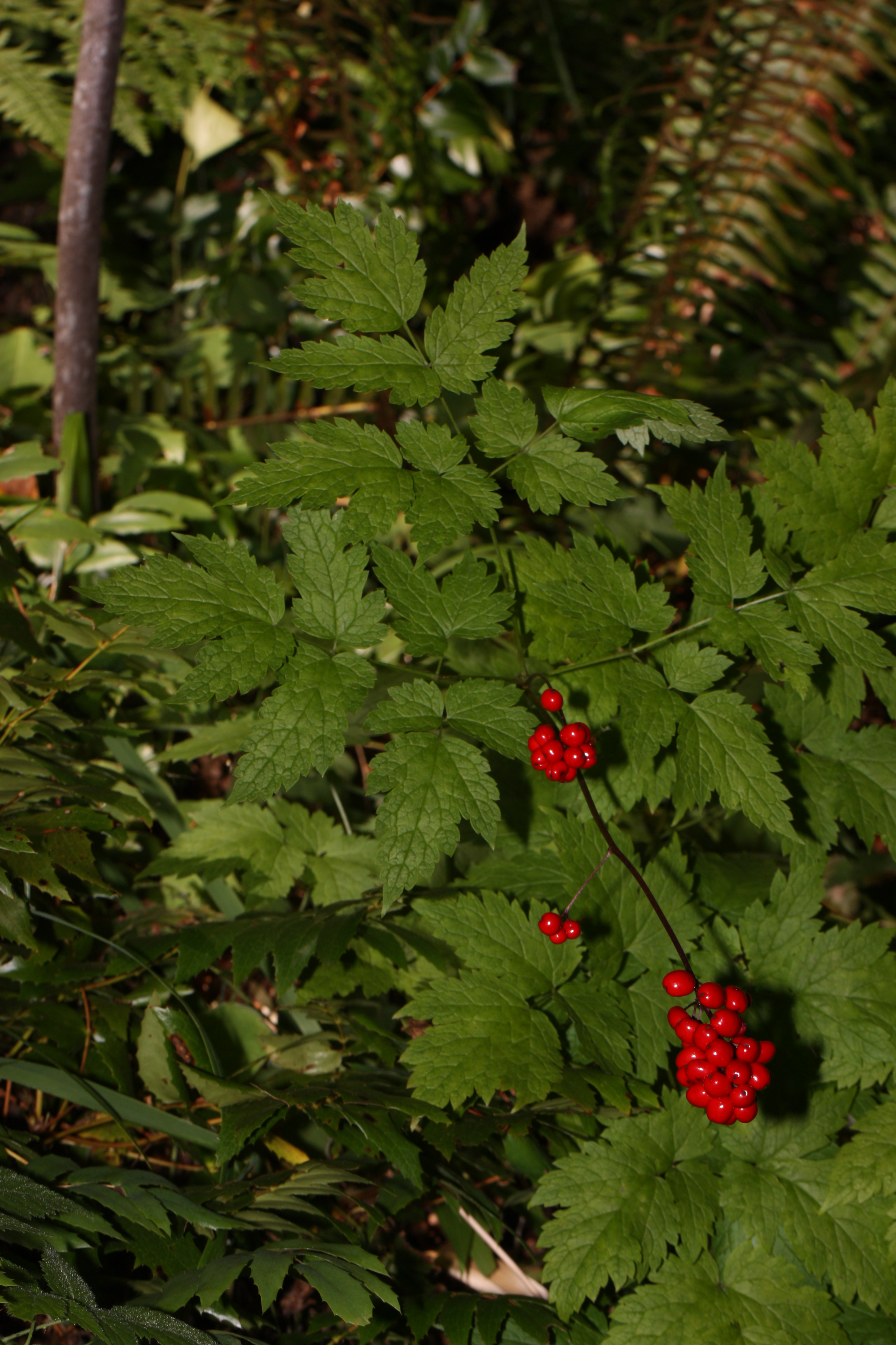 Baneberry